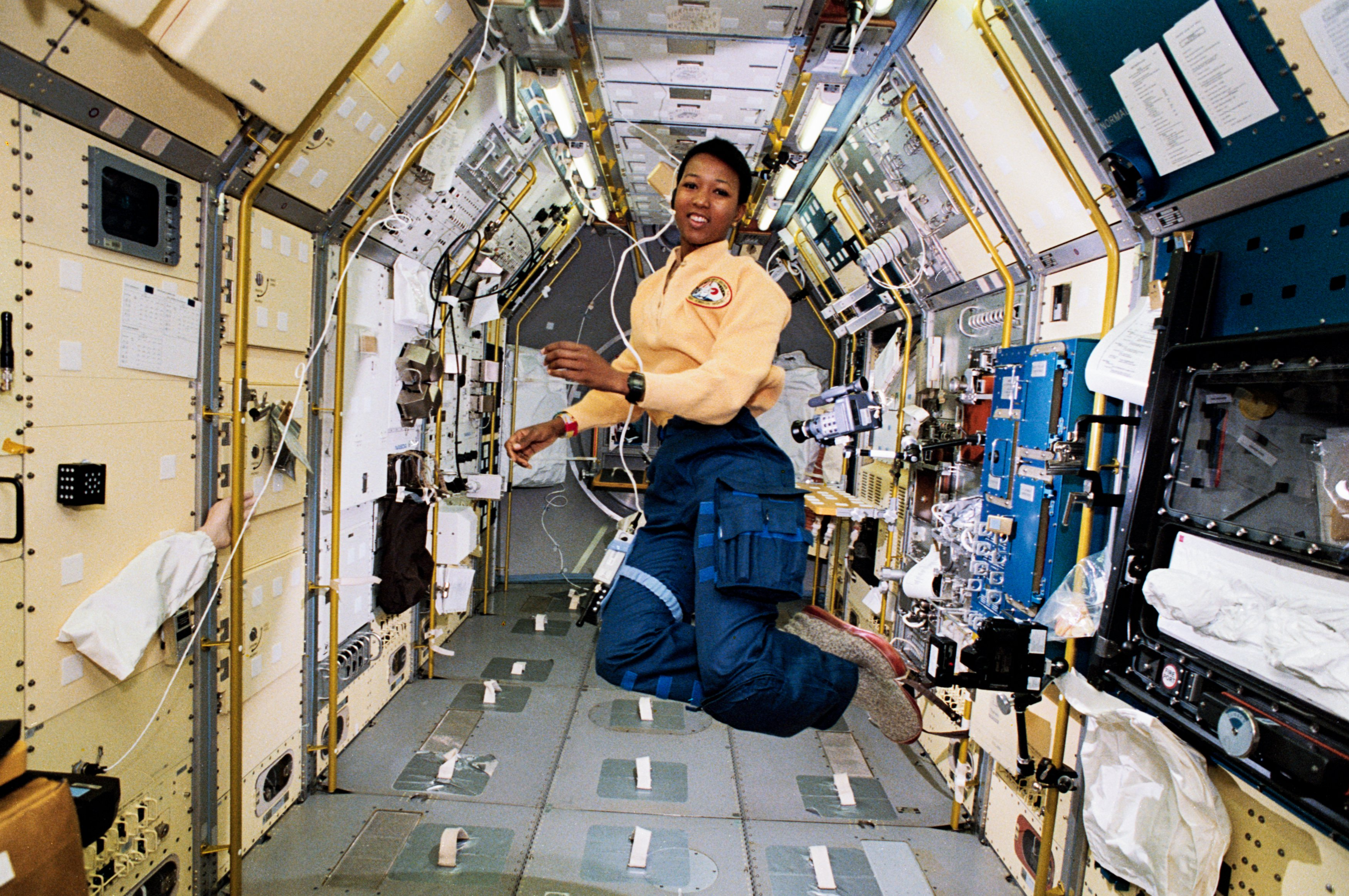 Mae Jemison